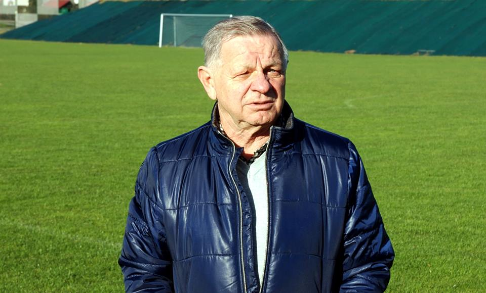 Zygfryd Szołtysik visit to the Stadion Miejski in Knurow.